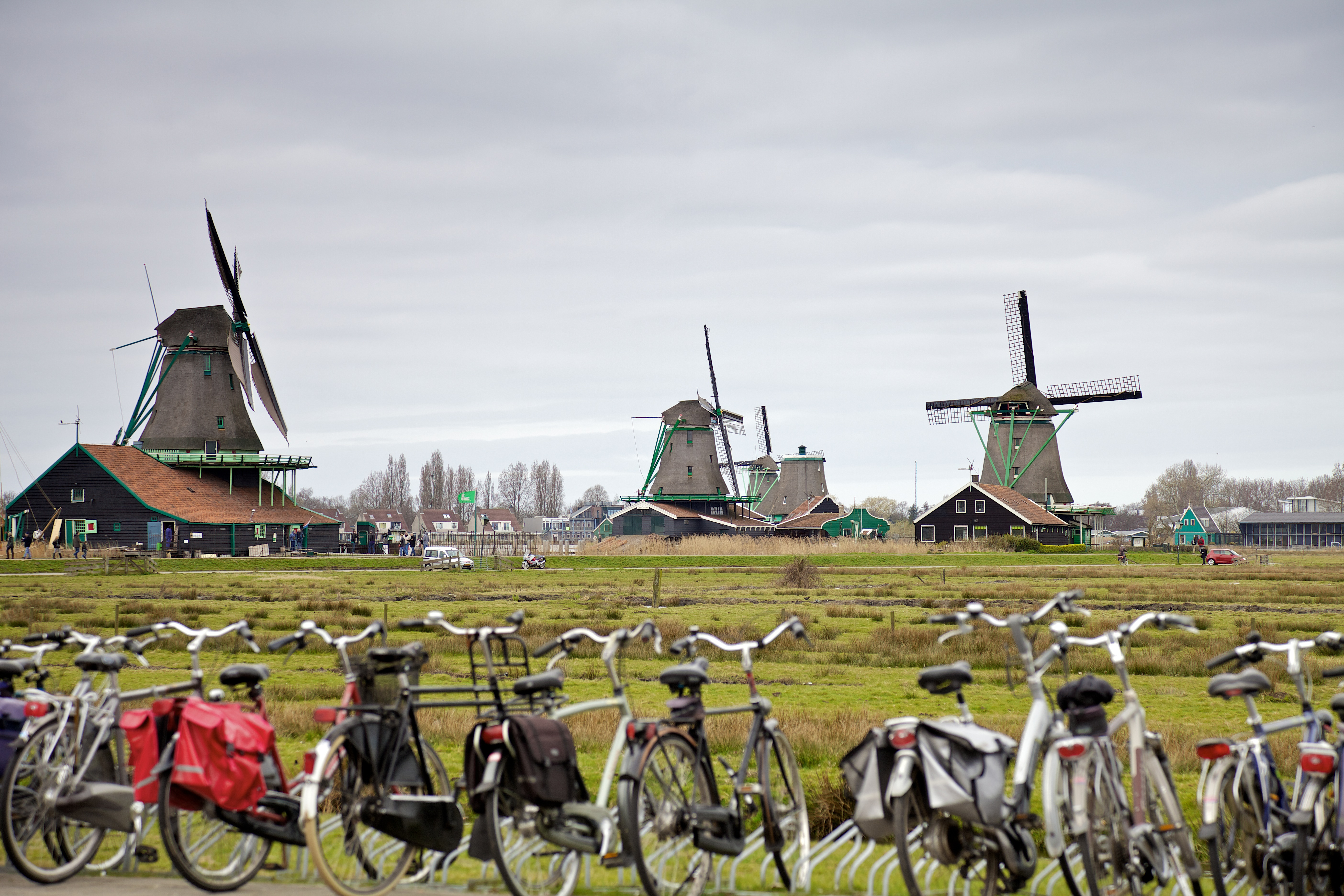 View of the windmills at Zaanse Schans. From left to right: De Kat (the cat), the Het Jonge Schaap (the young sheep) and De Zoeker (the Seeker). In the background De Os (without wings) and De Bonte Hen. On the foreground: typical Dutch bicycle.